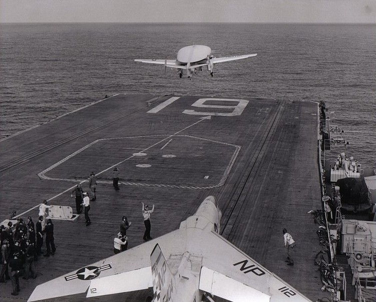 A U.S. Navy Grumman WF-2 Tracer of Carrier Airborne Early Warning Squadron 11 (VAW-11) Det. L "Early Eleven" is launched from the aircraft carrier USS Hancock (CVA-19) on 23 August 1962. A Vought F8U-1 Crusader (BuNo 145404) of Fighter Squadron 211 (VF-211) "Fighting Checkmates" moves up to be launched from the starboard catapult. Note the launching cable at the end of the port catapult and the ones on the right side of the flight deck. Both squadrons were assigned to Carrier Air Group 21 (CVG-21) aboard the Hancock for a deployment to the Western Pacific from 2 February to 7 October 1962. The WF-2 would be redesignated E-1B under the new joint designation system a month later, the F8U-1 would become the F-8A.